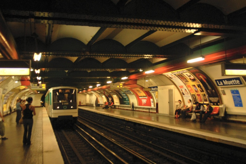 La Muette station, Paris metro; neat metal ceiling allows this station to be much closer to street level than normal.